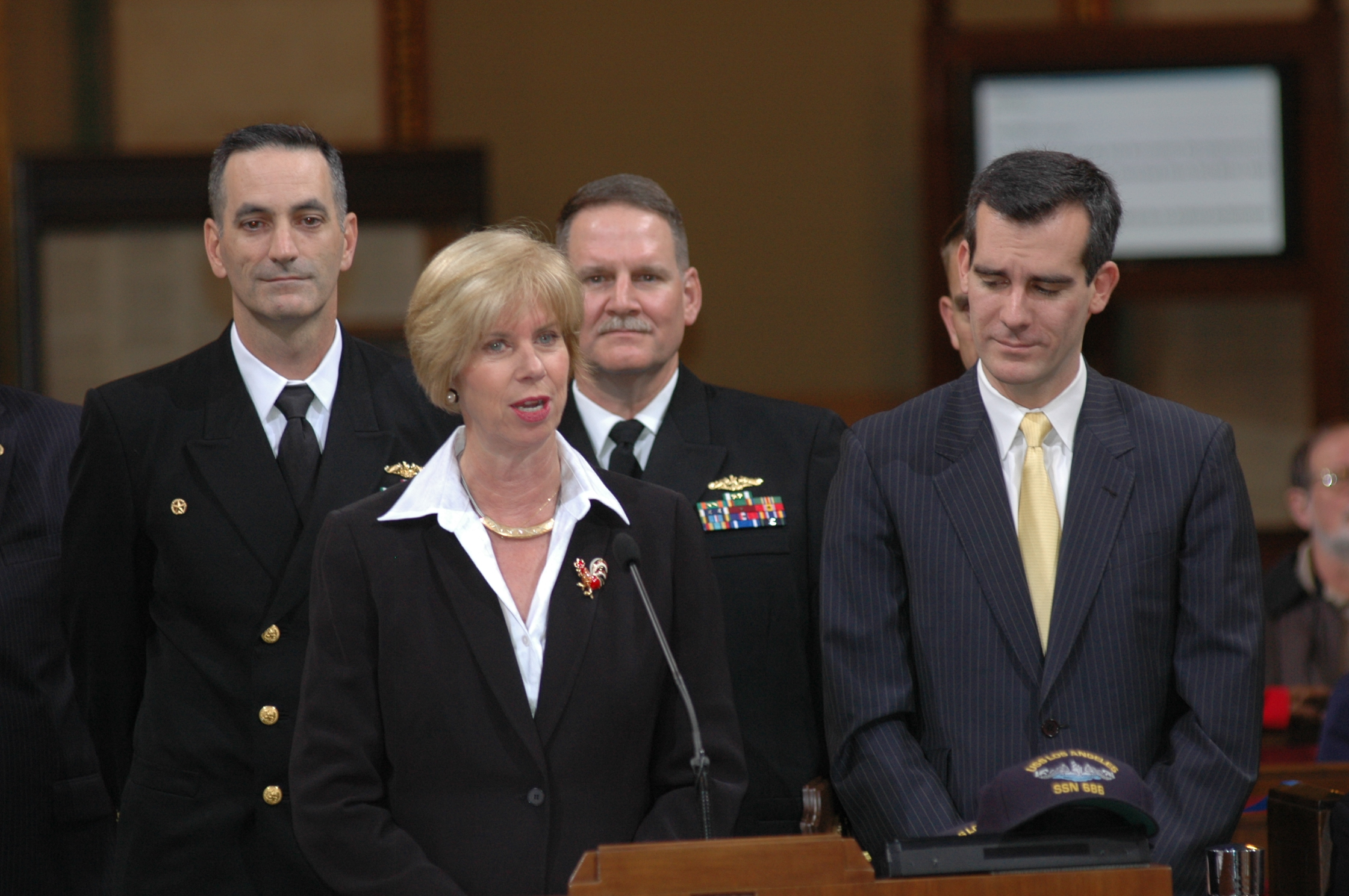 LOS ANGELES (Jan. 22, 2010) Commander Steven Harrison, left, commanding officer of the fast-attack submarine USS Los Angeles (SSN 688) and Lt. Cmdr. Darrel Lewis, executive officer, stand before the City of Los Angeles City Council with Counsel President Eric Garcetti, right, as 15th District Council Woman Janice Hahn reads a resolution making January 23rd USS Los Angeles Day in LA. After 33 years of service the submarine will be decommissioned in the Port of Los Angeles on Saturday, Jan. 23, 2010. (U.S. Navy photo by Mass Communication Specialist Chief Jeffrey Wells/Released)